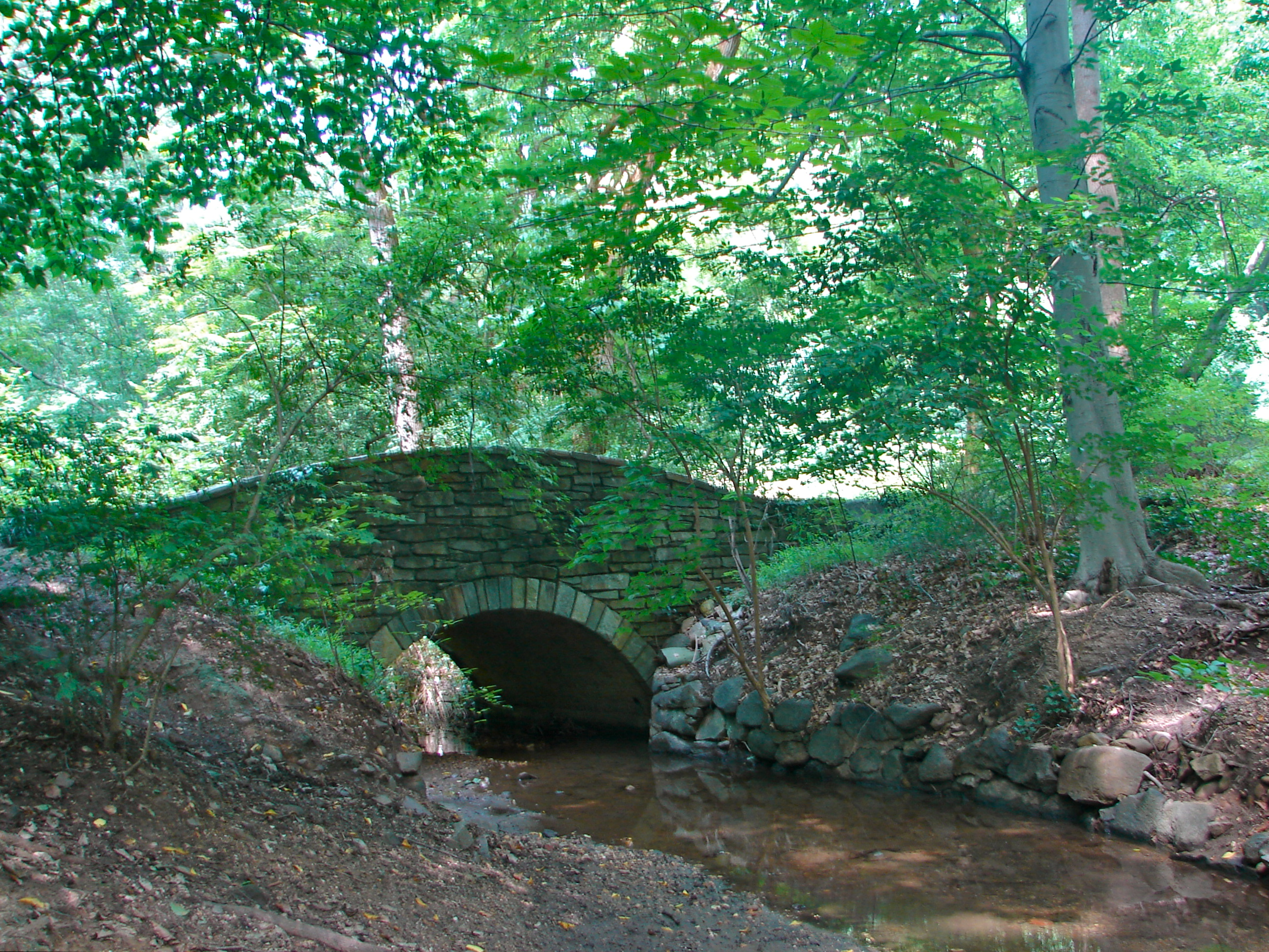 Dumbarton Oaks Park and Montrose Park on the NRHP since May 28, 1967. At R St. NW, in Washington, D.C. Hard to get to - approach via Wisconsin Ave. rather than Mass. Ave. Dumbarton Oaks Park is run by the National Park Service and is left in a "natural state." Montrose Park is run by the District of Columbia and is a "city park" with playgrounds, tennis courts, etc. In the Georgetown neighborhood. The stream is a tributary of Rock Creek.